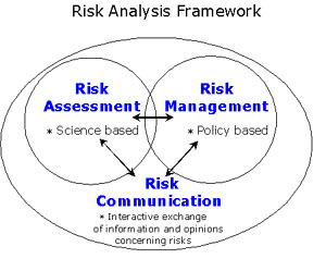 Diagram illustrating the relationship between the three components of risk analysis.